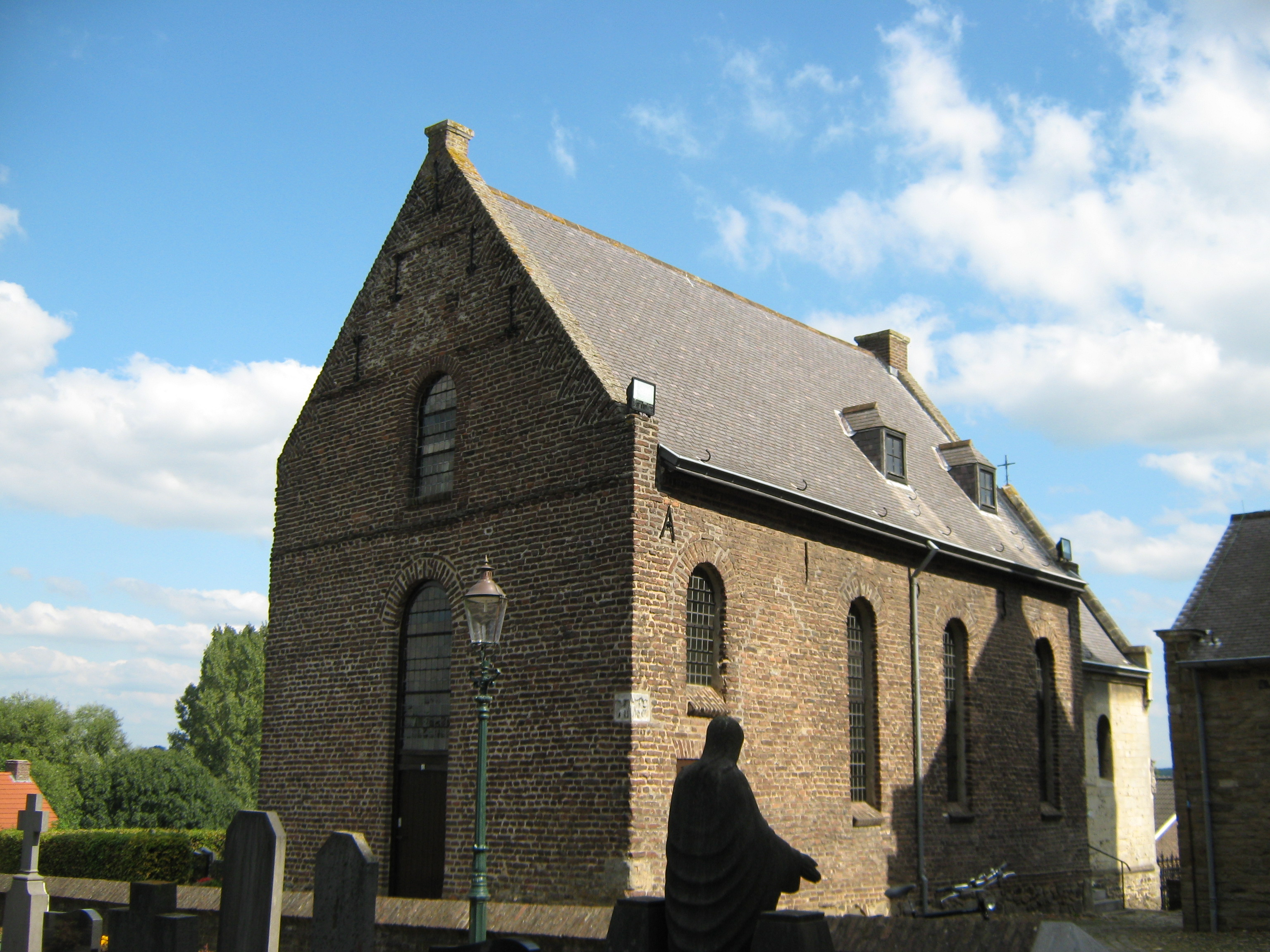 old chapel for virgin Mary in St Odiliënberg. The corner contains a roman stone.